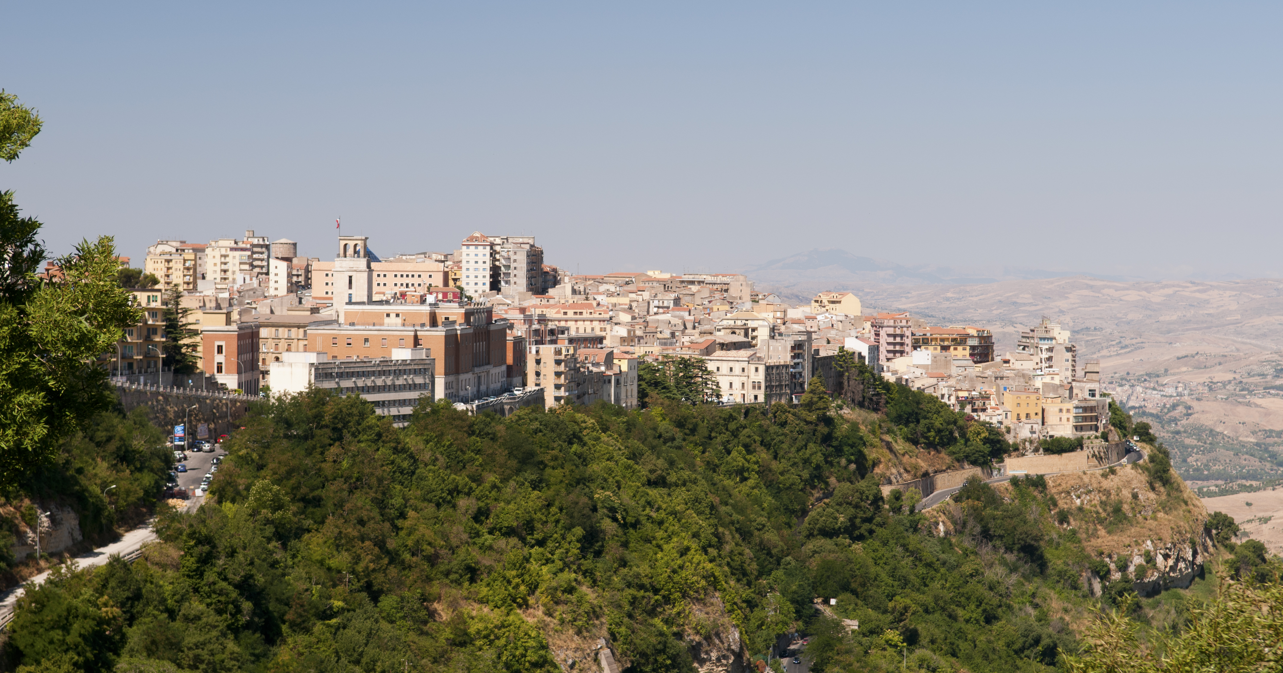 Enna, Sicily, Italy